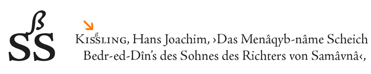 SS-ligature by Eyal Holtzman